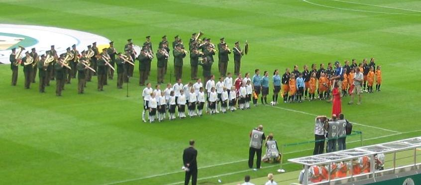 Final of the Women's German Cup 2007 in the Olympiastadion Berlin between the 1. FFC Frankfurt and the FCR 2001 Duisburg 5:2 P.